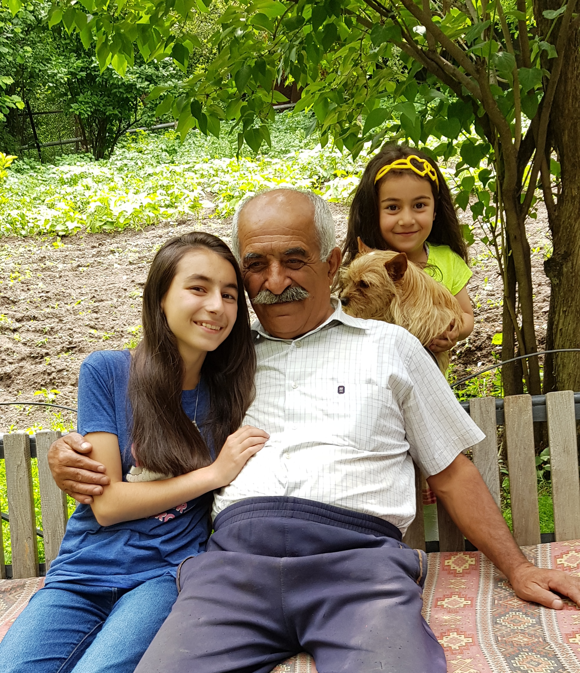 The grandfather with his grandchildren